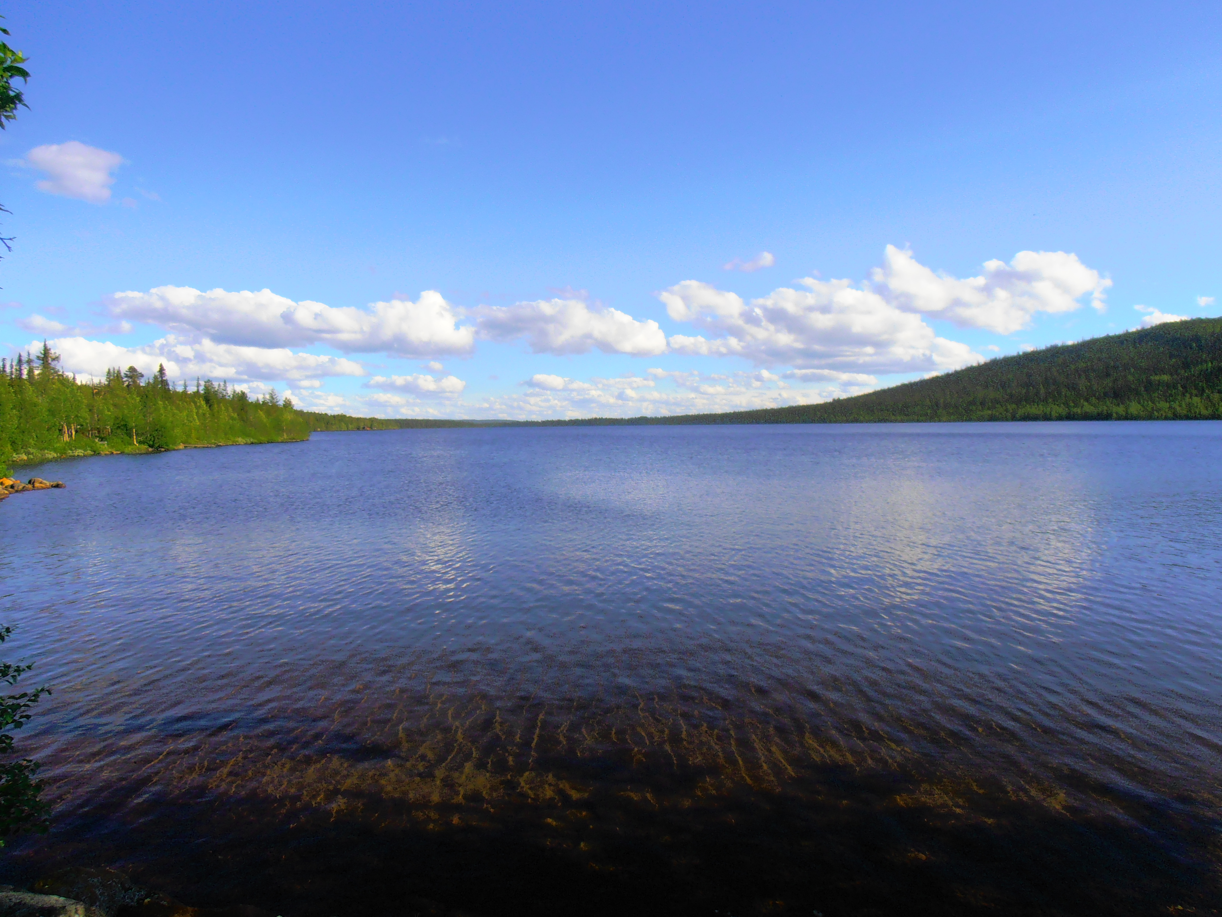 The Harrträsket lake, Gällivare